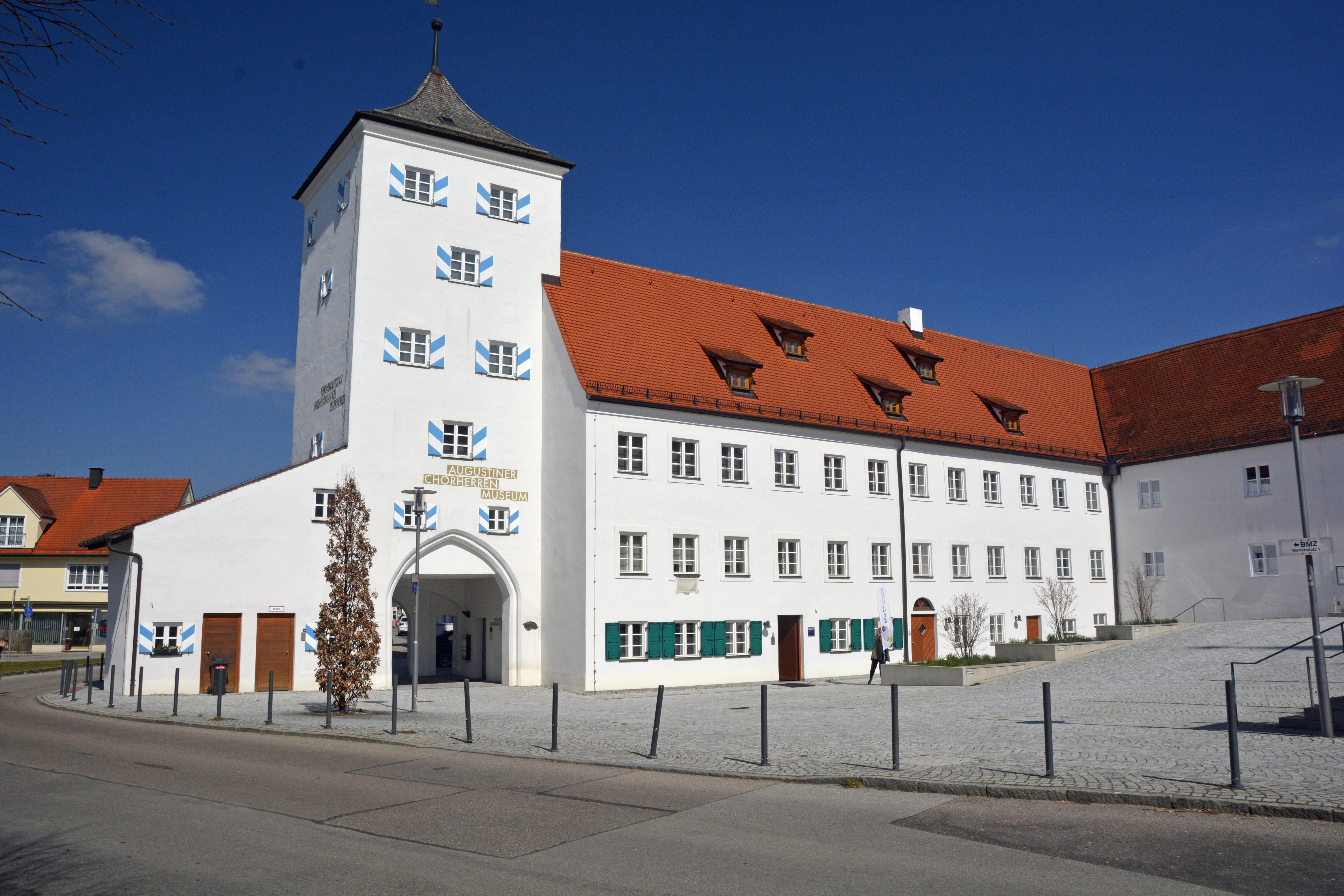 Augustinian Canons Museum, Markt Indersdorf